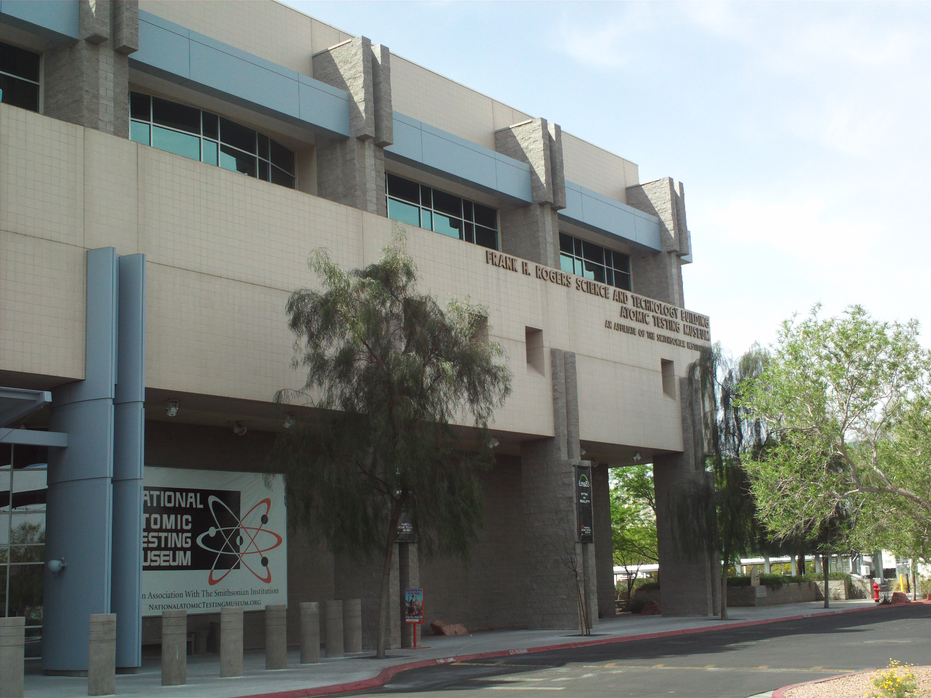 National Atomic Testing Museum in Las Vegas